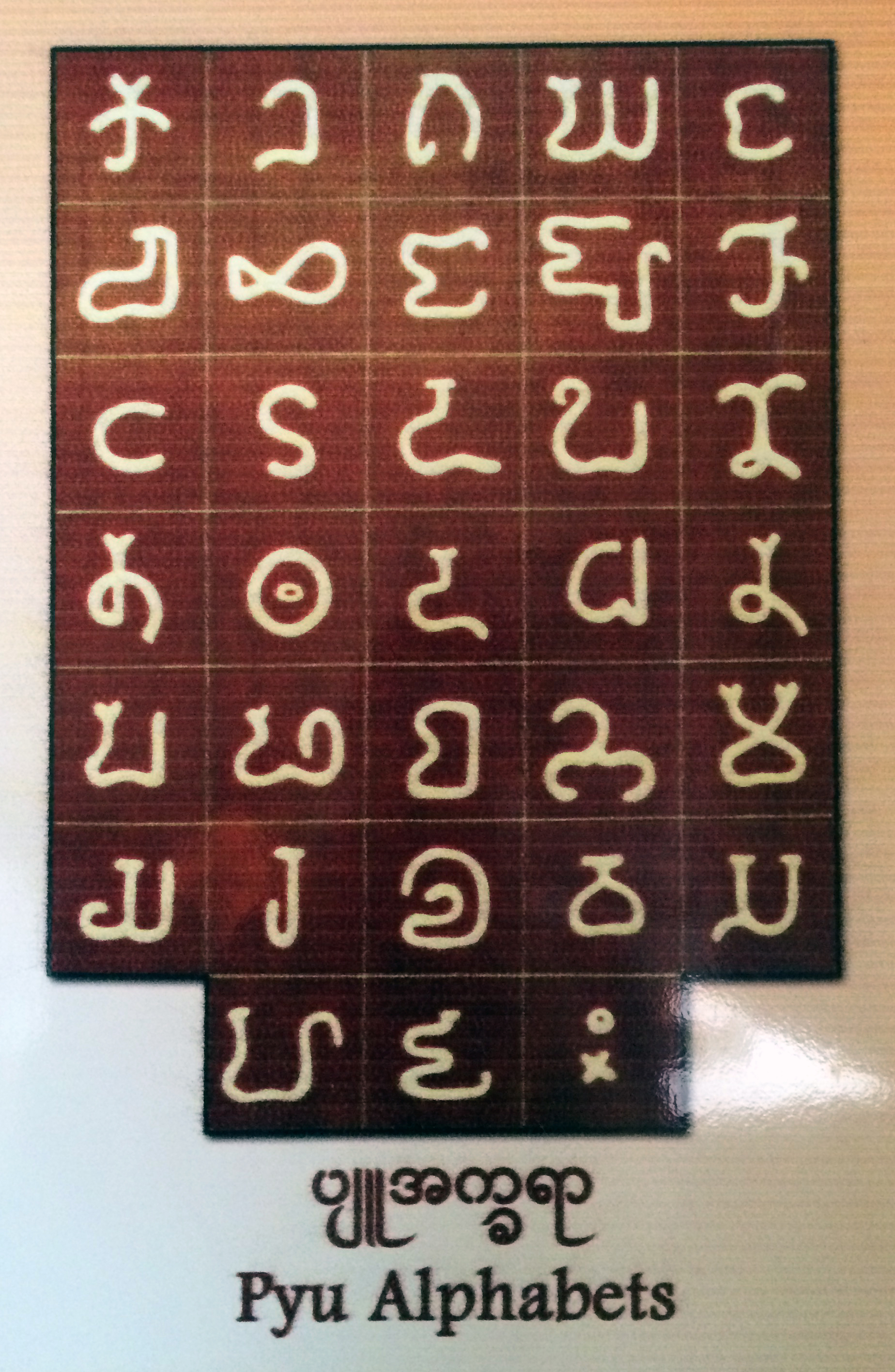 Pyu Alphabets မြန်မာဘာသာ: ပျူအက္ခရာများ